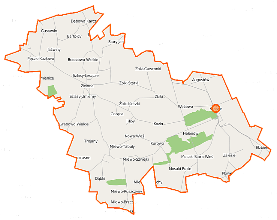 Map of Gmina Krasne, Poland This map of Krasne (gmina w województwie mazowieckim) was created from OpenStreetMap project data, collected by the community. This map may be incomplete, and may contain errors. Don't rely solely on it for navigation. Border coordinates52.982320.7693←↕→21.023452.8608